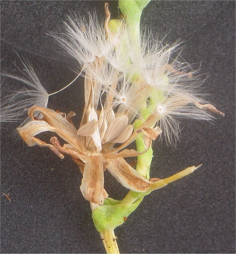 Lactuca sativa fruits in situ